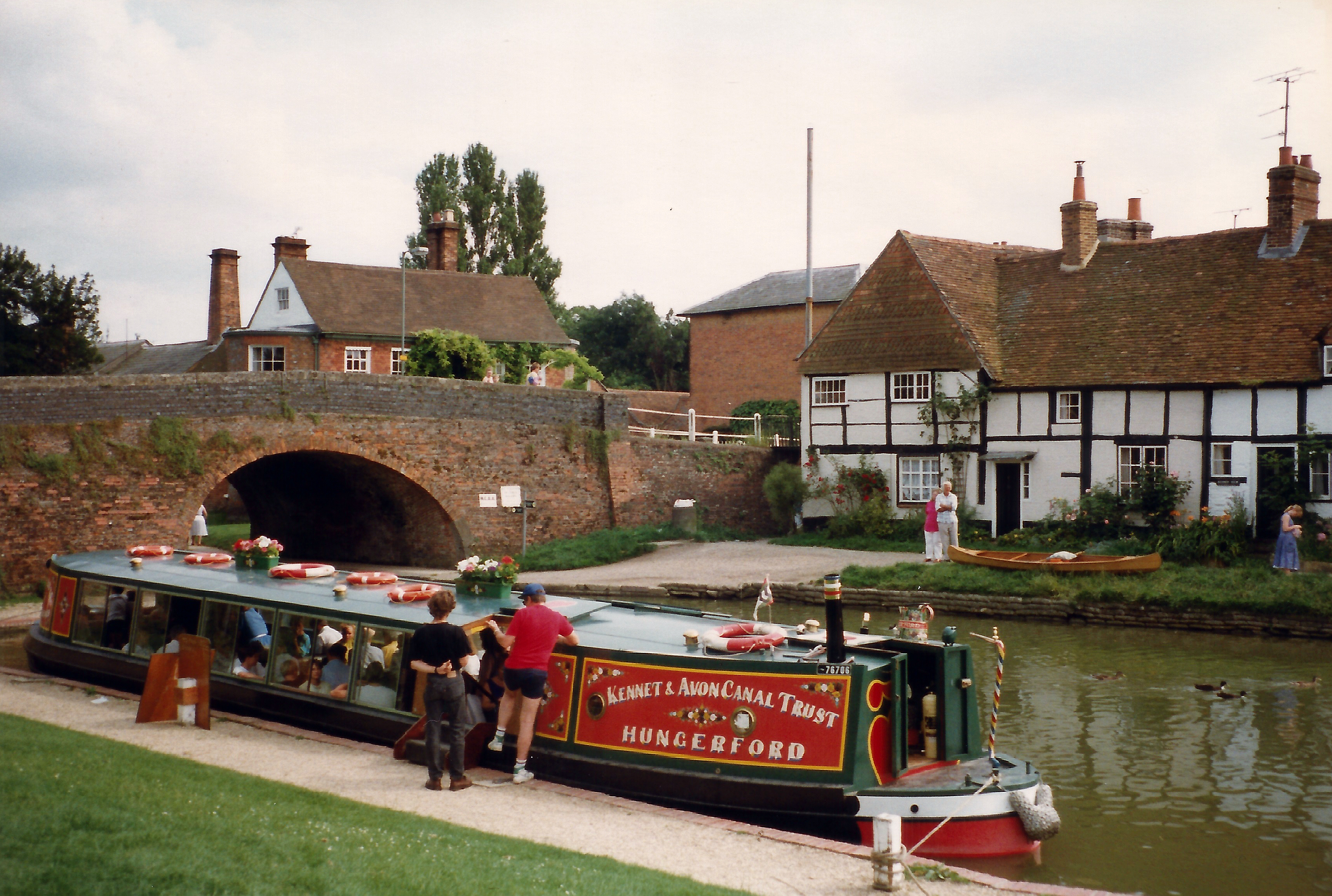 Rose of Hungerford narrowboat on the Kennet & Avon Canal at Hungerford, Berkshire, England